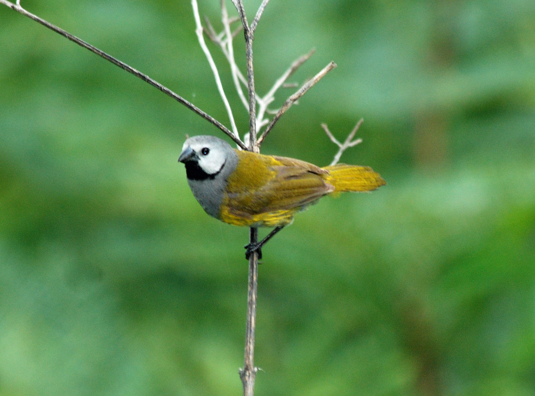 Grey-headed Oliveback, Poli, Cameroon